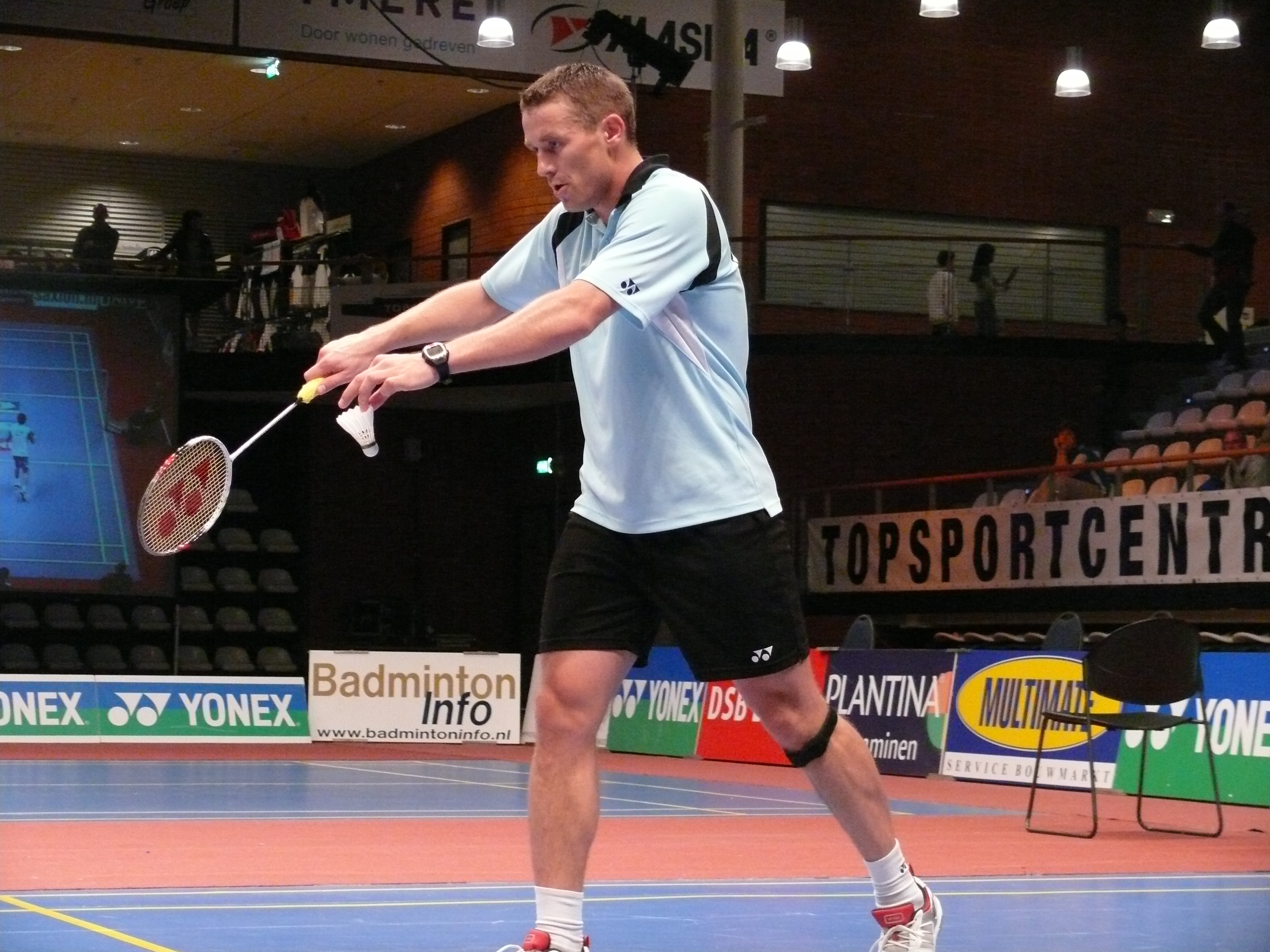 Przemysław Wacha (Poland)